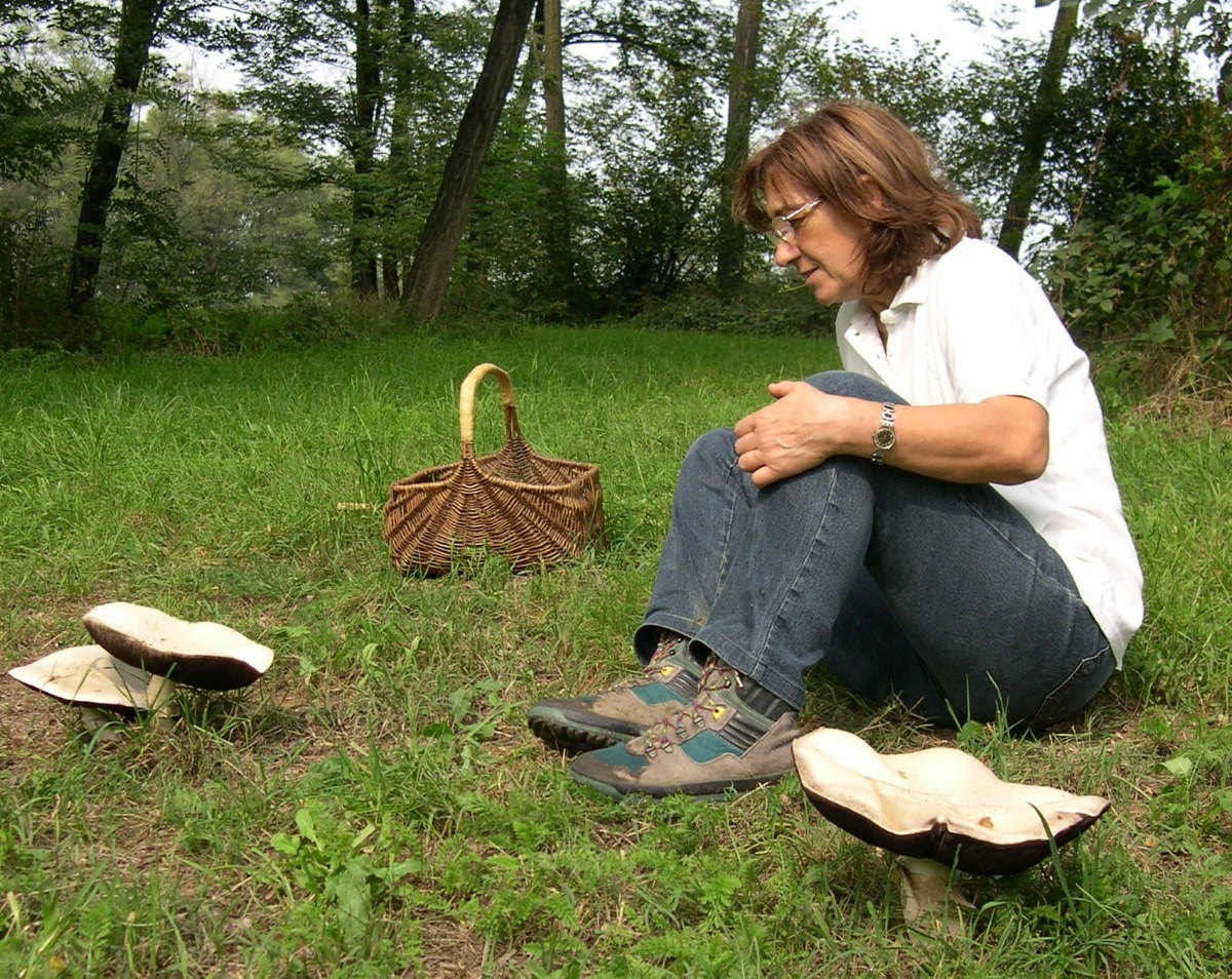 Agaricus alberti September 2005 - Near Besana Brianza - Italy by Archenzo